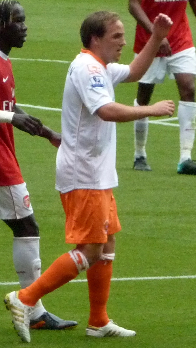 David Vaughan, cropped from Arsenal vs Blackpool